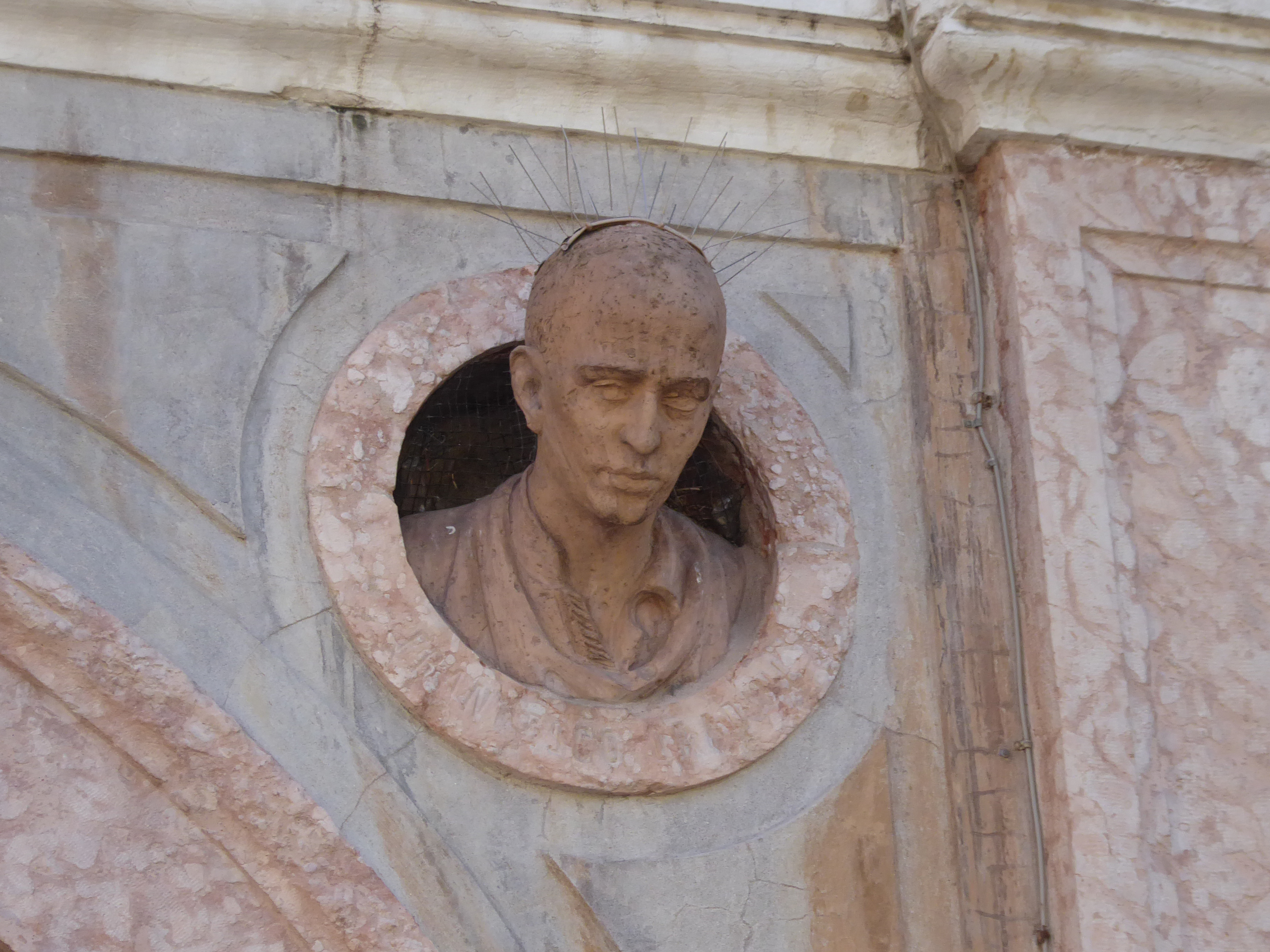 Bust of Francesco Oradini on the facade of Palazzo Ranzi, in Trento, by Andrea Malfatti